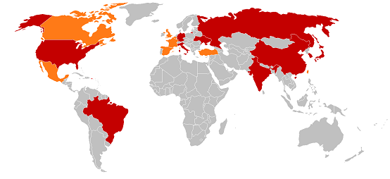 World map indicating the 10 biggest steel producers (red) and other countries which annual steel production is over 10 million tons.